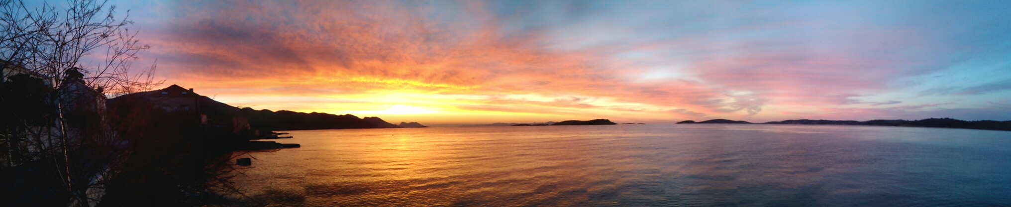 panorama